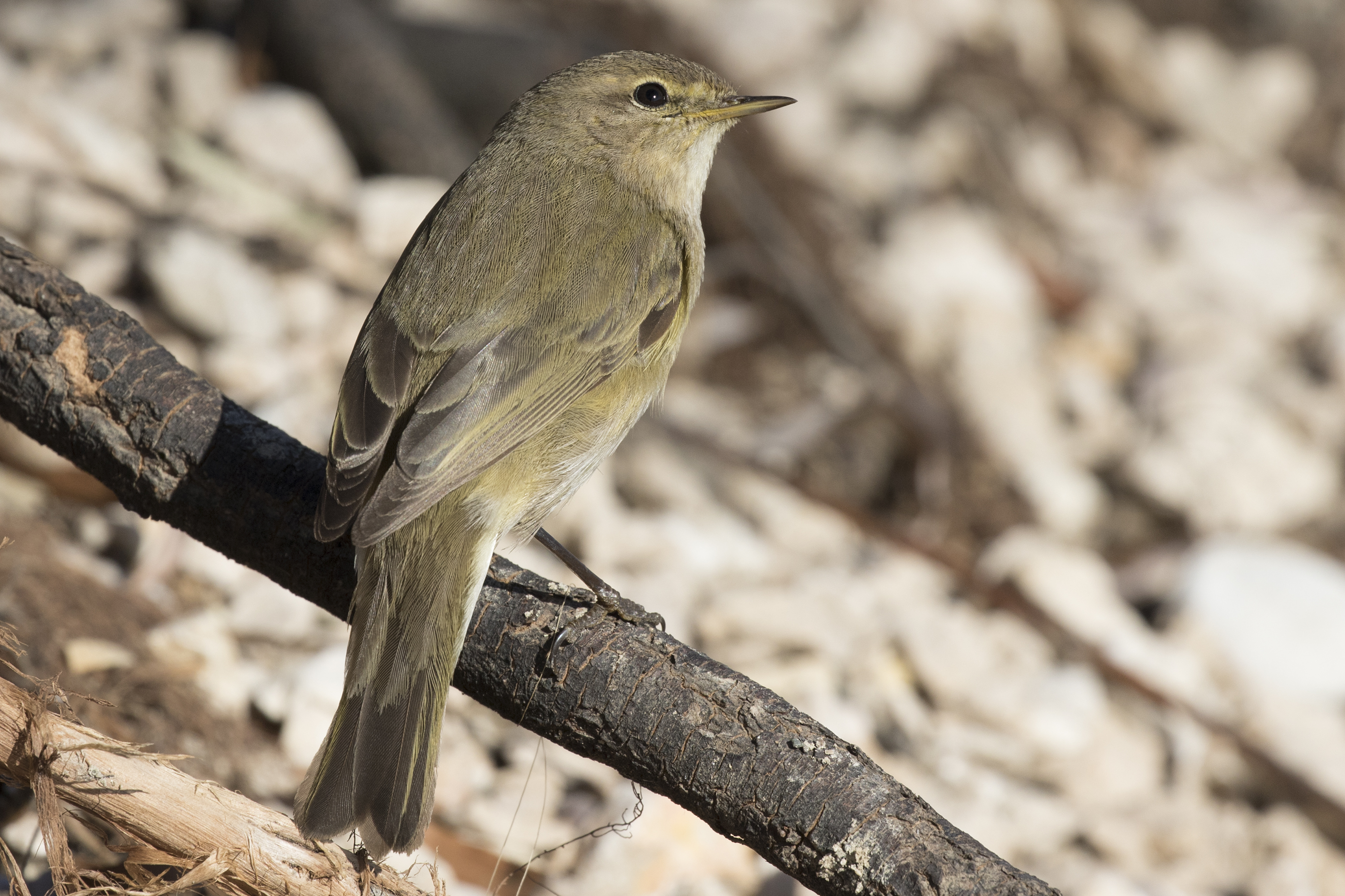 Willow Warbler (Phylloscopus trochilus). Eskibaraj Dam Lake, Adana - Turkey.